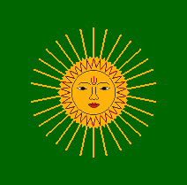 Bhaisunda flag. Bhaisunda (भैसुंदा) or Bhaisaunda was one of the Chaube Jagirs.